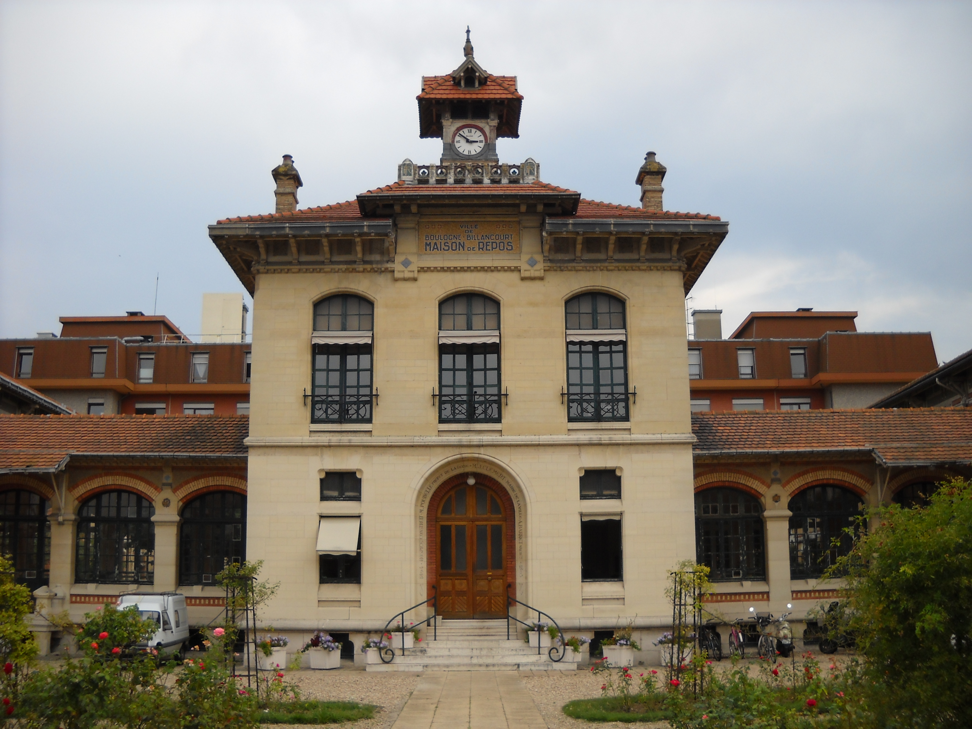 Retirement home in Boulogne-Billancourt, Hauts-de-Seine, France.